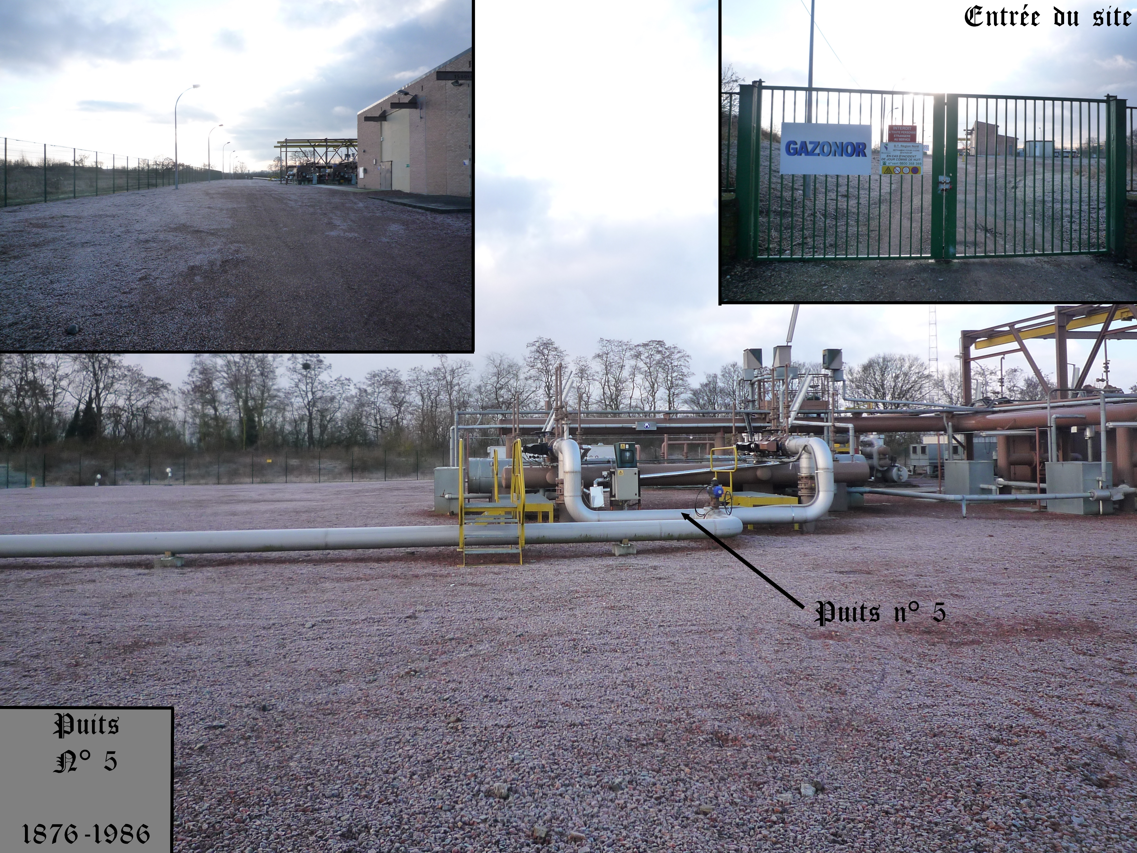 Pit n° 5, Compagnie des mines de Lens, Avion, Pas-de-Calais, Nord-Pas-de-Calais, France.